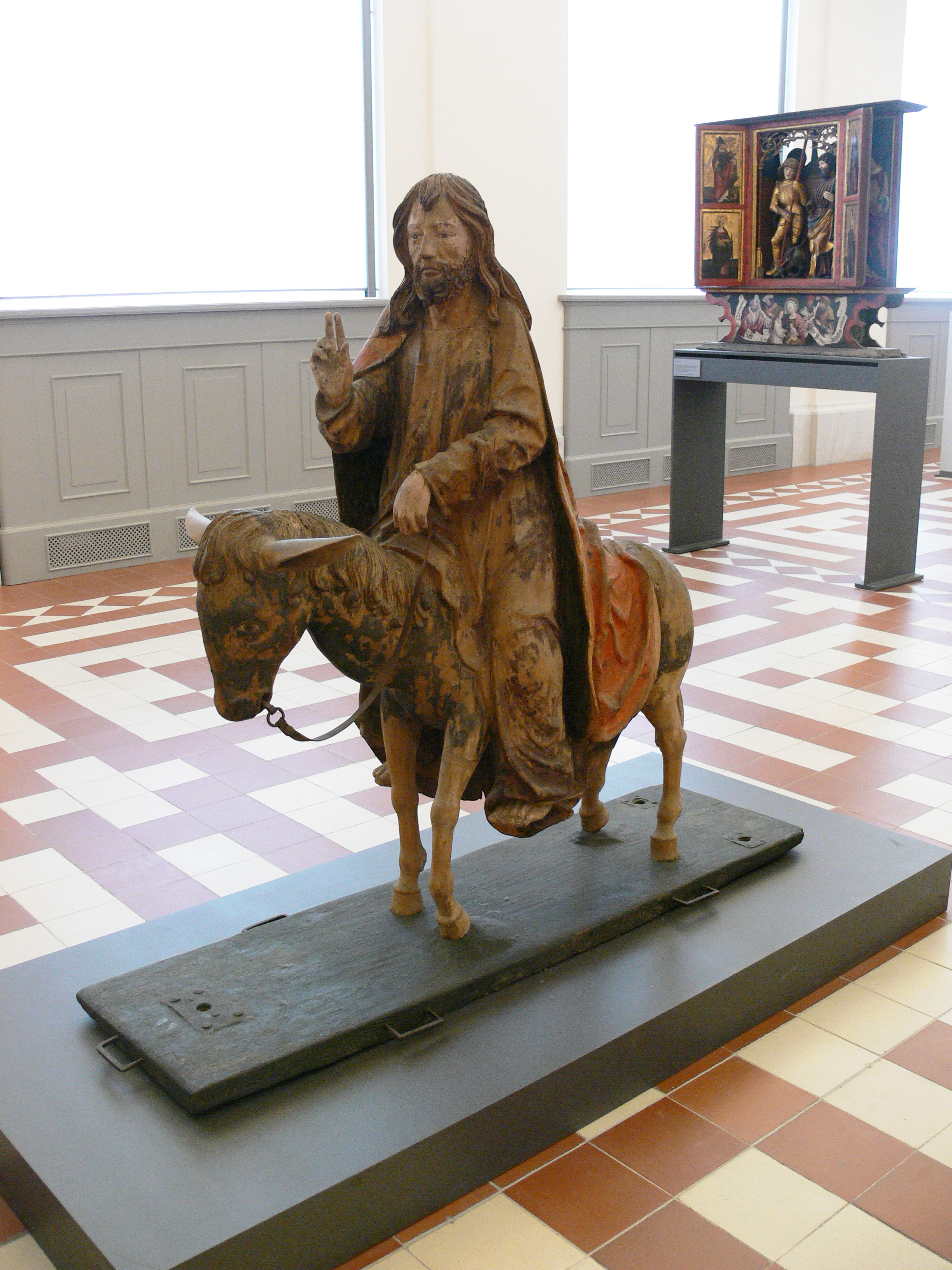 Christ on the Back of a Donkey (depicting his Entry into Jerusalem), used for processions on Palm Sunday